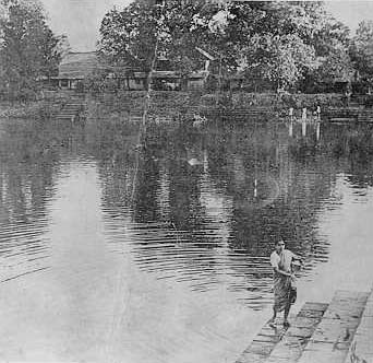 Dr. Babasaheb Ambedkar Chavdar Tale (tank) at Mahad (Raigad, Maharashtra). Dr. Ambedkar had led the epic struggle of the Untouchables here by symbolically drinking its water